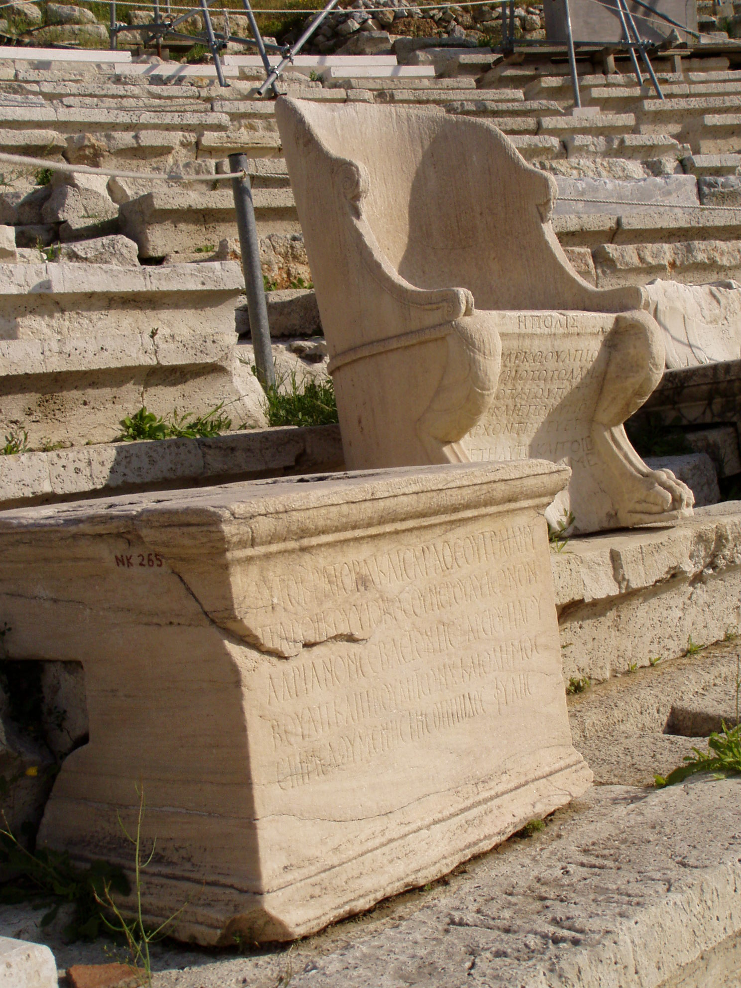 Theatre of Dionysus and the throne for the archon eponymos (the throne is dedicated to a Roman citizen, Marcus Ulpius, and to his two sons, 3rd Century A.D., in recognition of their charitable works during a time of famine).